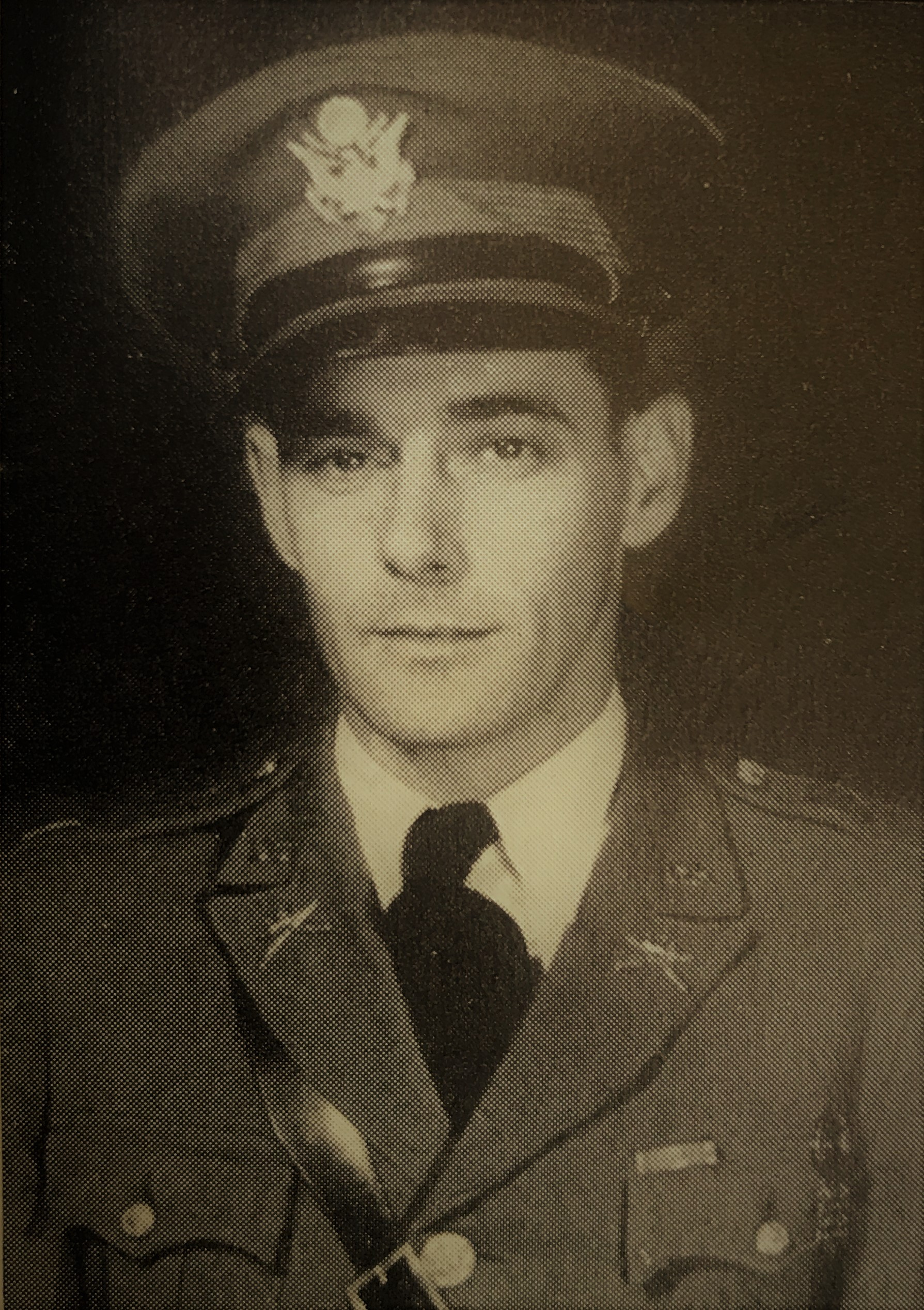 CPT Mahone Rees, Jr. commanded Company E, 124th Infantry of Live Oak, Florida, circa 1/29/1935 - circa 1940.